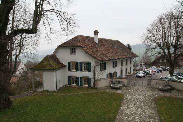 Wil Castle, administrative building.